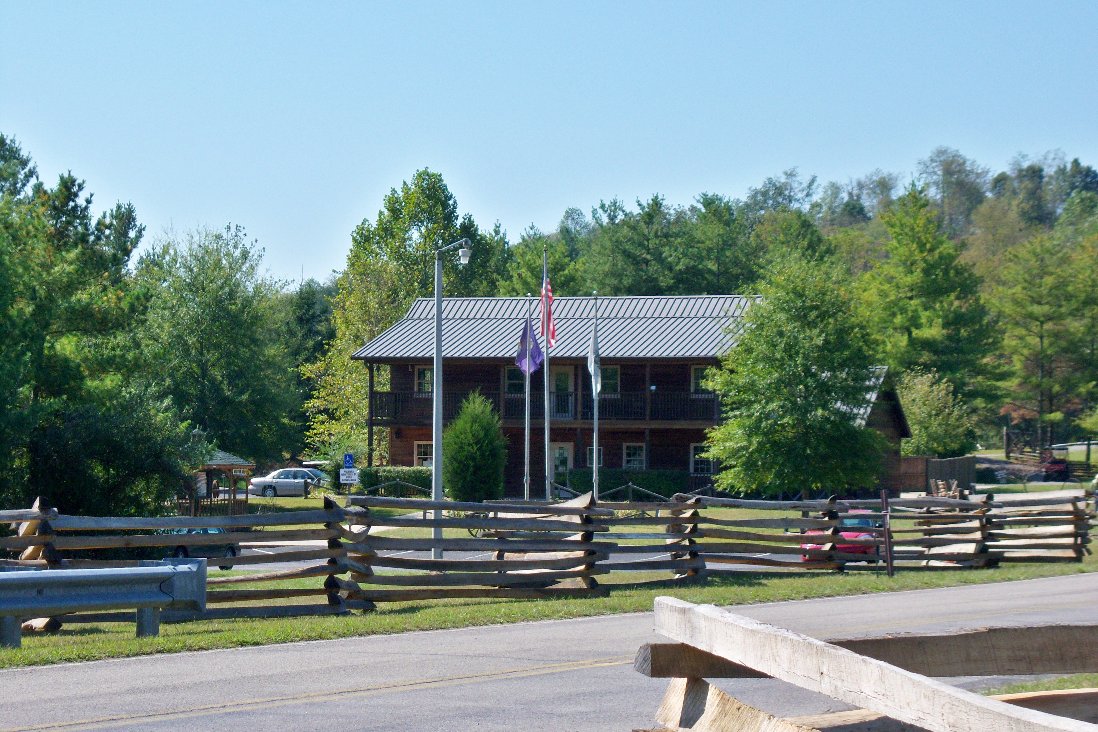 The Mountain Homeplace welcome center and Museum of Appalachian History in Staffordsville, Kentucky.